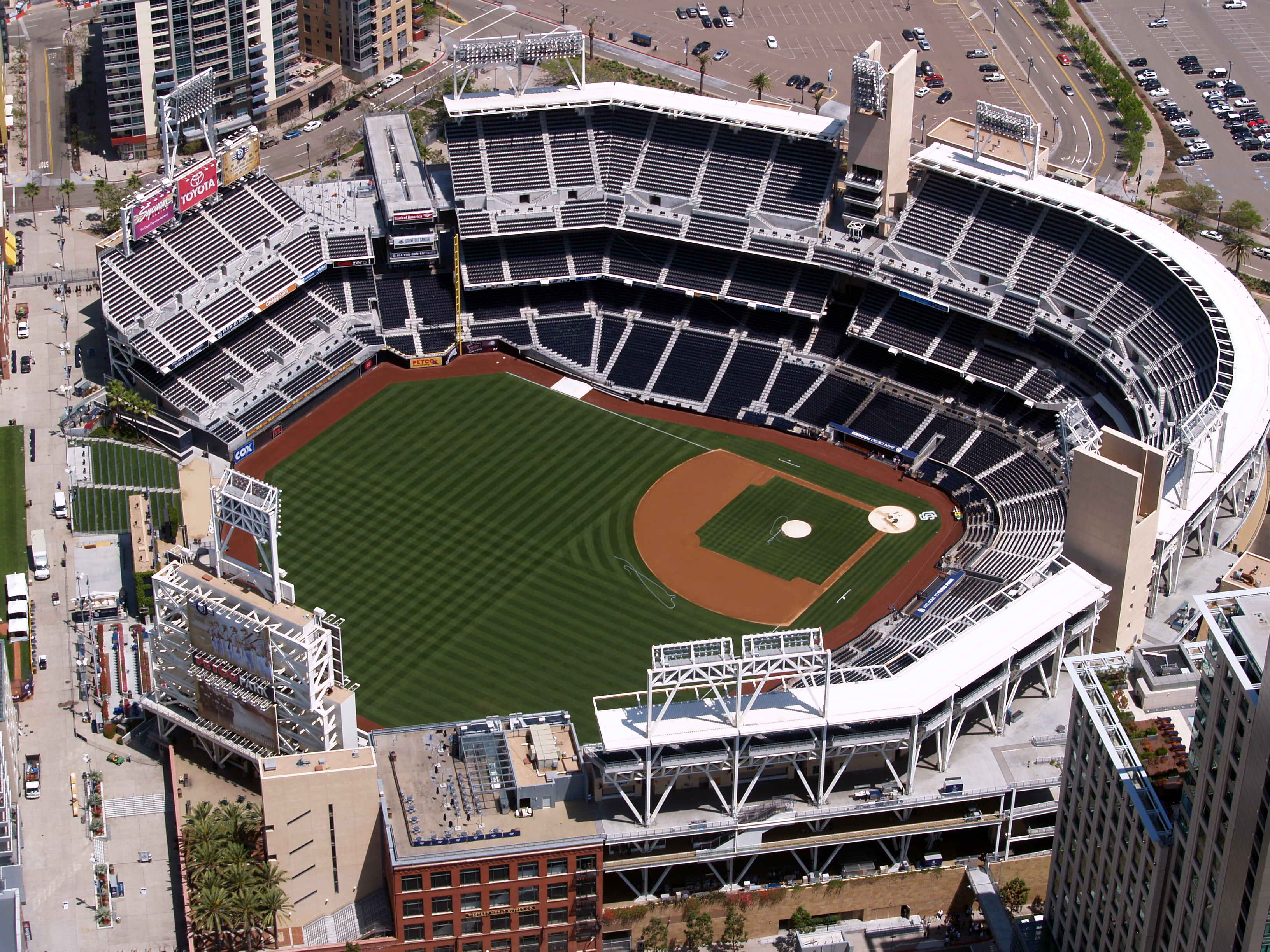 A photo of San Diego Padres Petco Park as taken from overhead in a helicopter.